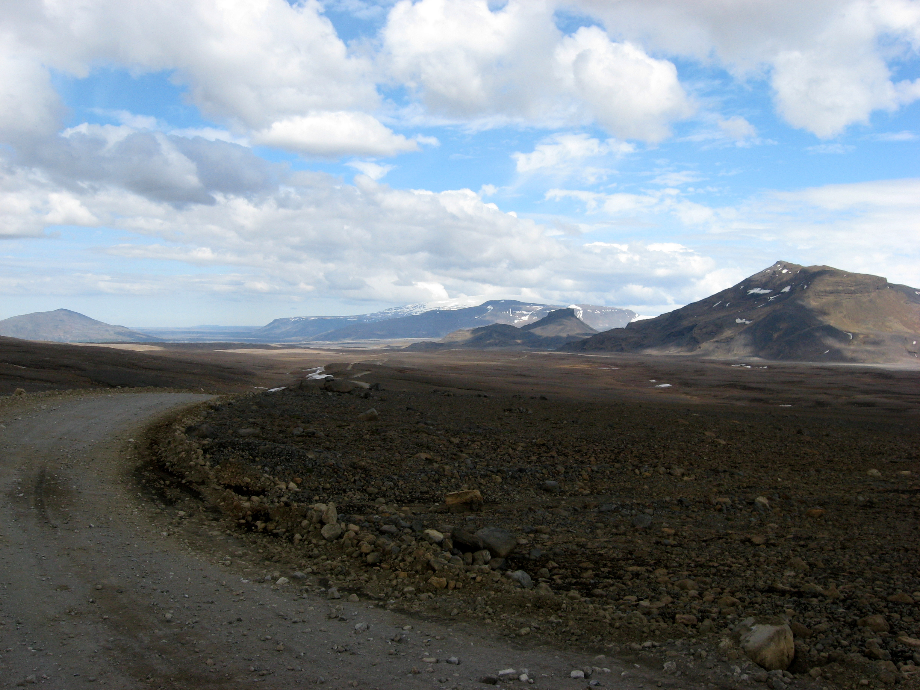 Northbound on the Kaldidalur route in the highlands of Iceland.